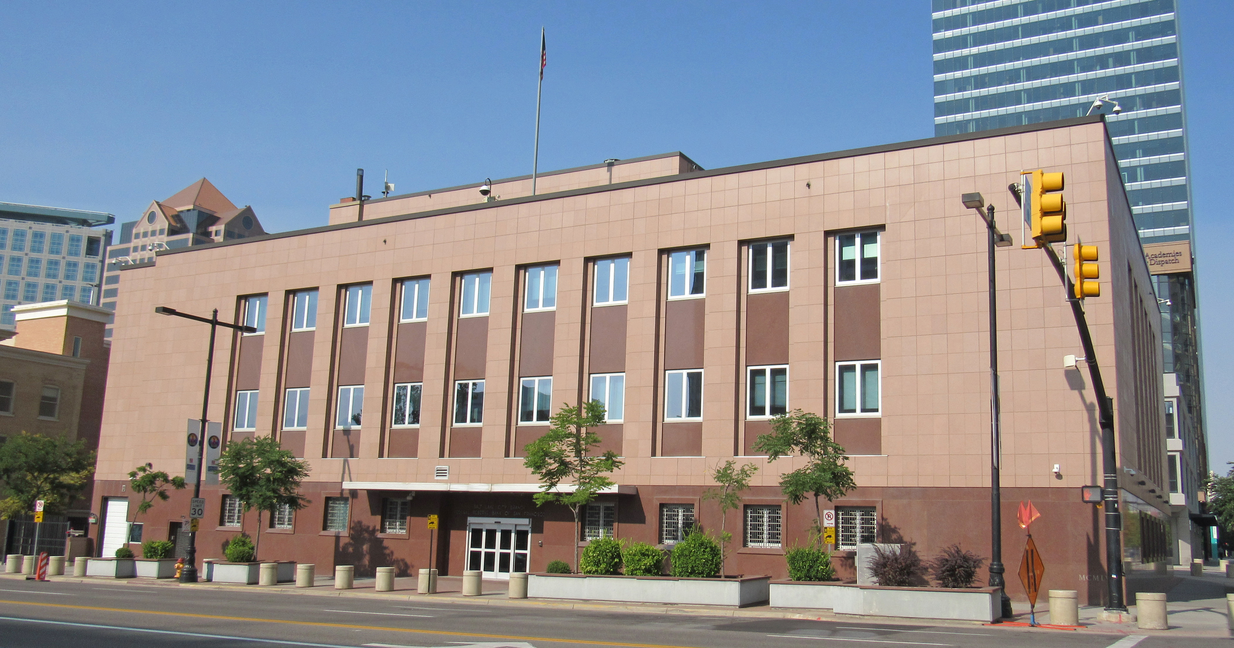 This building houses the Salt Lake City Branch of the Federal Reserve Bank of San Francisco. The building sits on the corner of 100 South and State Street in downtown Salt Lake City, Utah. Built between 1957–1959.